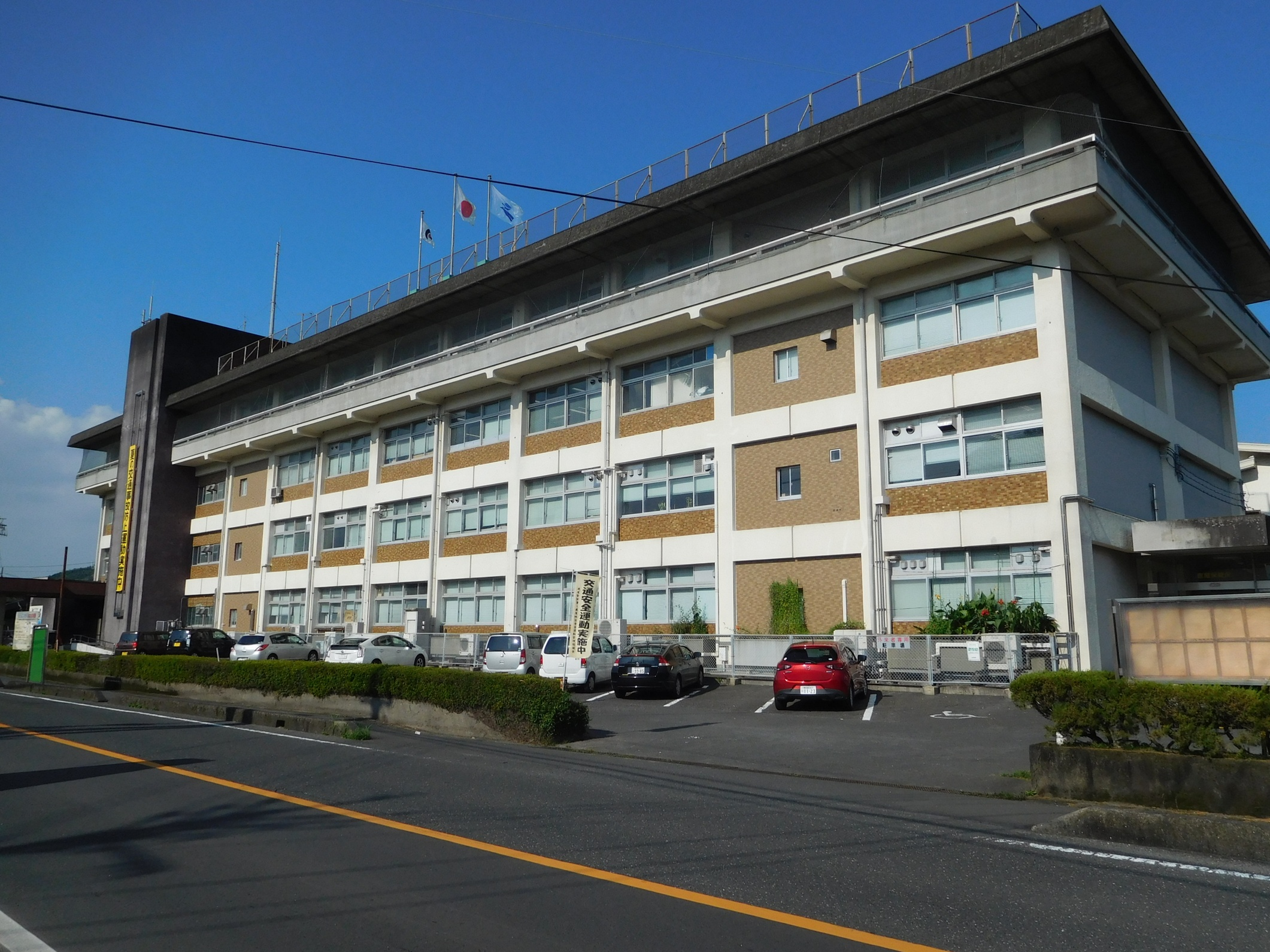 Kagoshima Prefectural Osumi Regional Promotion Bureau (Kanoya City, Kagoshima Prefecture, Japan)